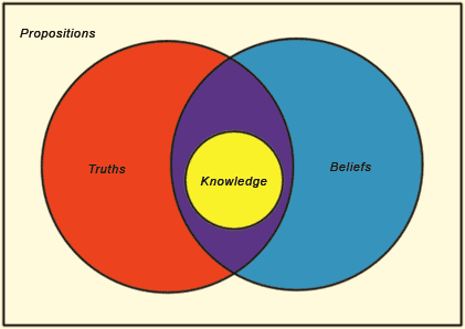 A Venn Diagram simplification of Plato's definition of knowledge. (More precisely, as Gettier himself puts it, Plato first mentions the tripartite definition of knowledge as justified true belief in Theatetus 201, and appears to support it in Meno 98.) The Venn Diagram restricts the domain of knowledge to propositions. This is a restricted, philosophical sense of knowledge (see Epistemology). It recognises that belief and truth is not sufficient for knowledge; that knowledge is a subset of true beliefs. The philosophical problems related to knowledge traditionally revolve around how to understand what differentiates between true beliefs and knowledge. Transferred from en.wikipedia to Commons. The original description page was here. All following user names refer to en.wikipedia. File:Classical-Definition-of-Kno.svg is a vector version of this file. It should be used in place of this raster image when not inferior. File:Classical-Definition-of-Kno.png File:Classical-Definition-of-Kno.svg For more information, see Help:SVG. Templates:Vector version available/I18n